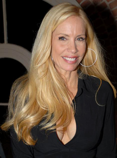 Tane McClure at the launch of Mamie Van Doren's new wine